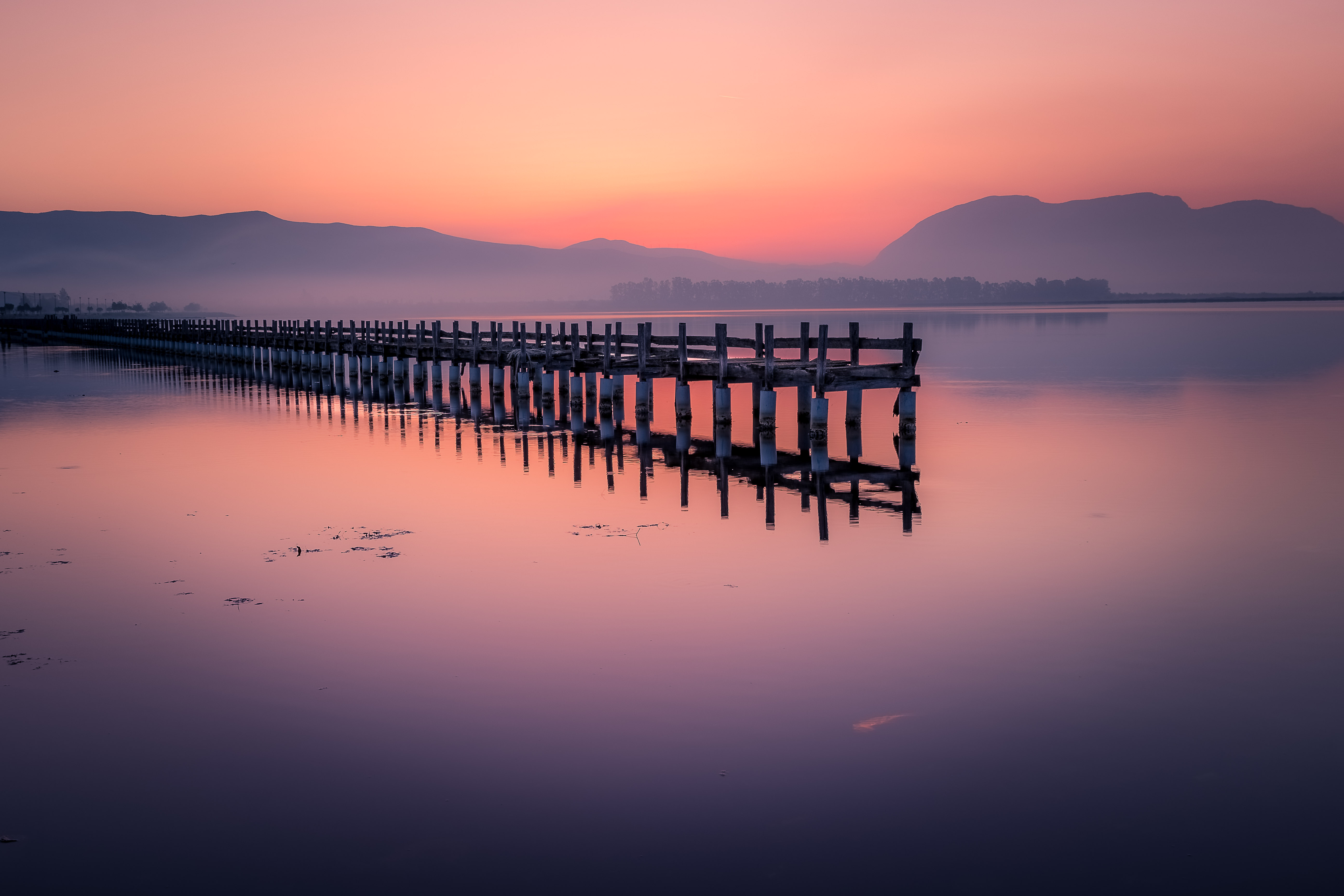 This is a photography of Natura 2000 protected area with ID GR2310001